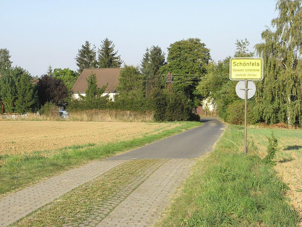 Way from Altrottmannsdorf to Neuschönfels